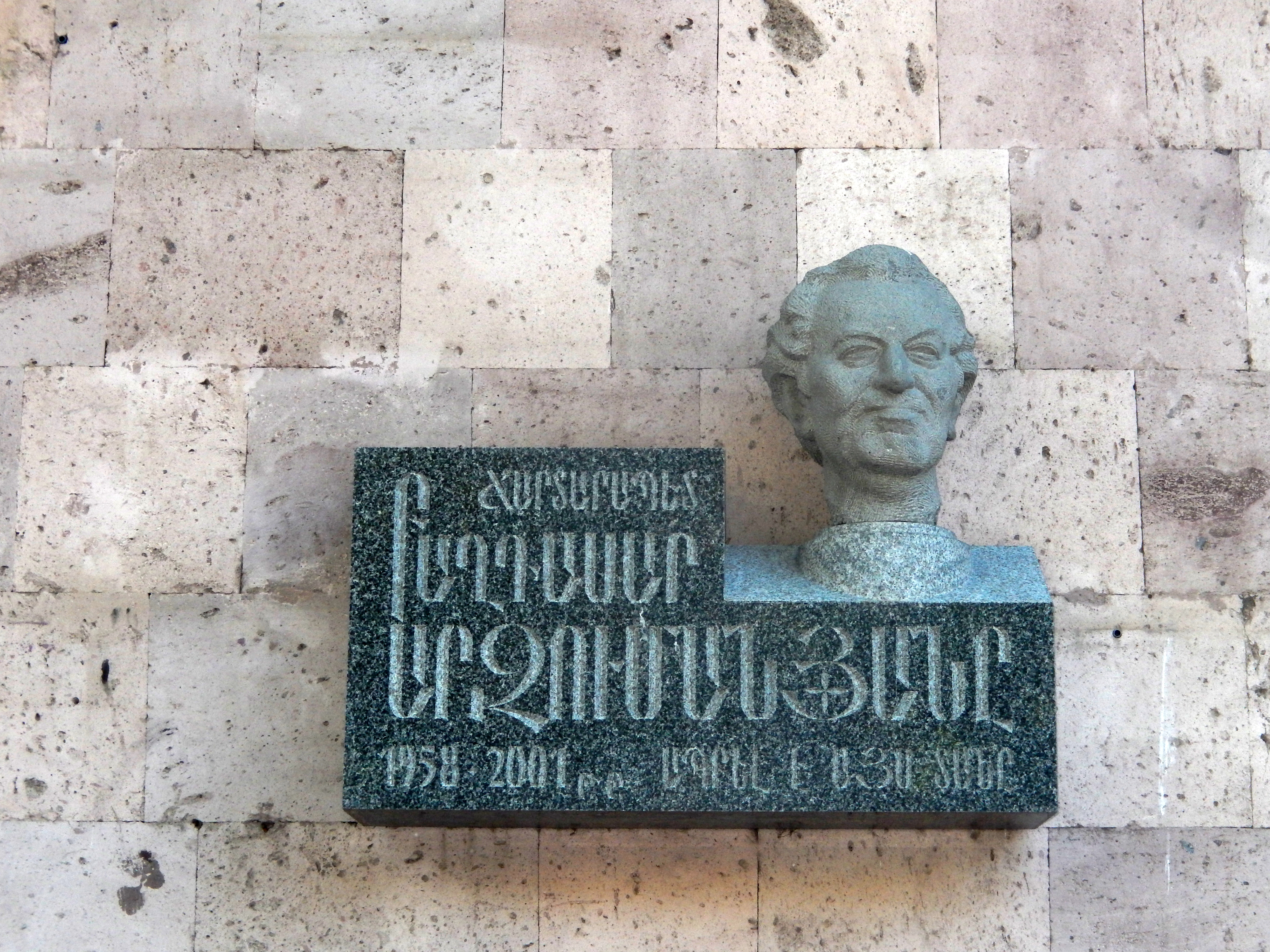 Baghdasar Arzumanyan's Plaque on Charents street, Yerevan